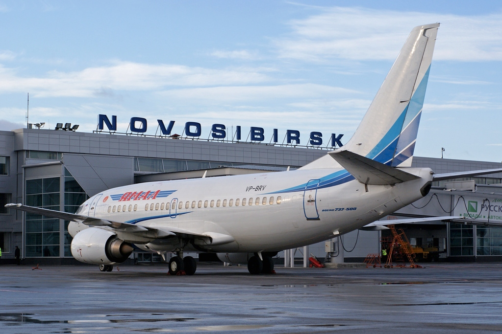 Ex-Aviaprad.